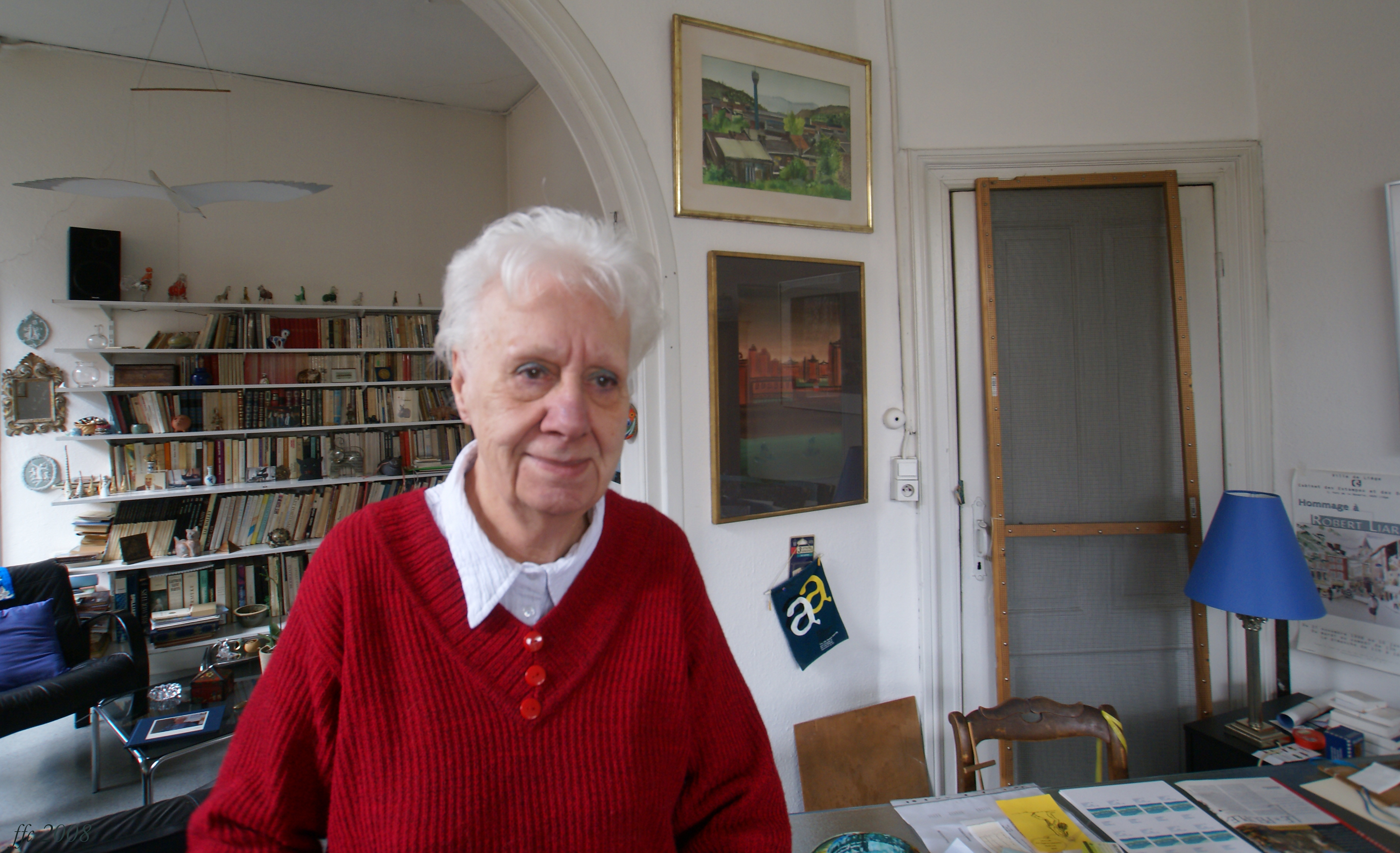 The studio of Clélie Lamberty. In the background, a water colour painting of La Vieille Montagne in Chênée, painted by Robert Liard, and Loup, es-tu là? by Clélie Lamberty